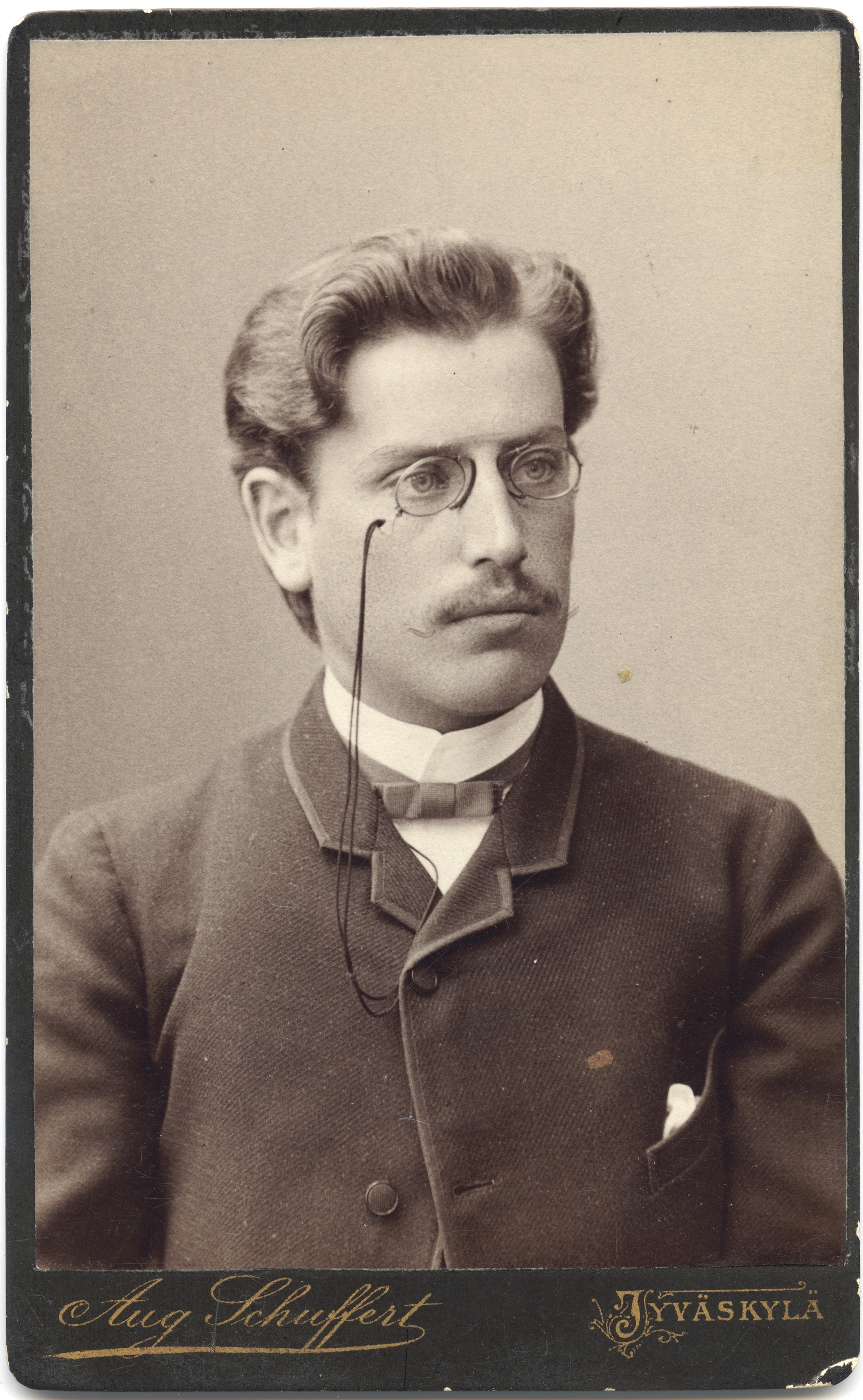 Attorney general Henrik Kahelin